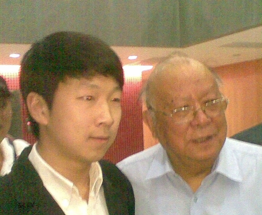 Jiang Ping and his student at Peking University